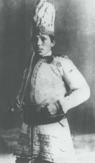 Sosé Onasakenrat, Chief of the Mohawk nation at Kanesatake, 1868–1881.